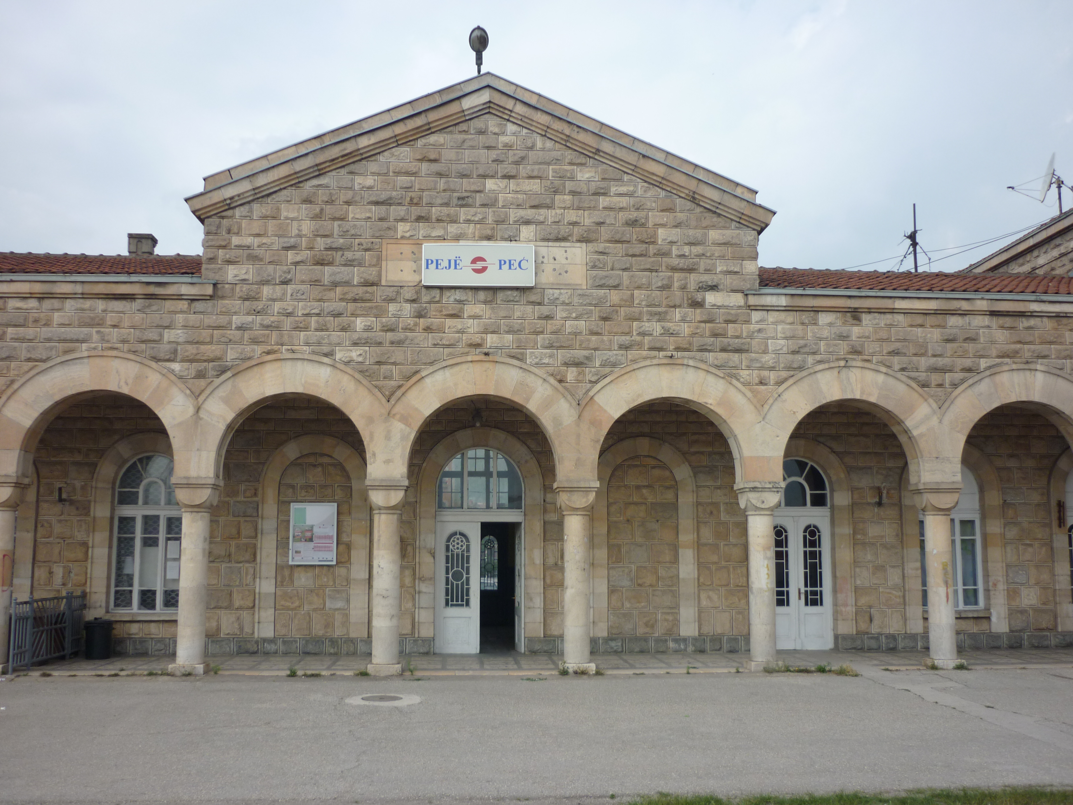 The mainbuilding of the Railway Station in Peja, Kosova.